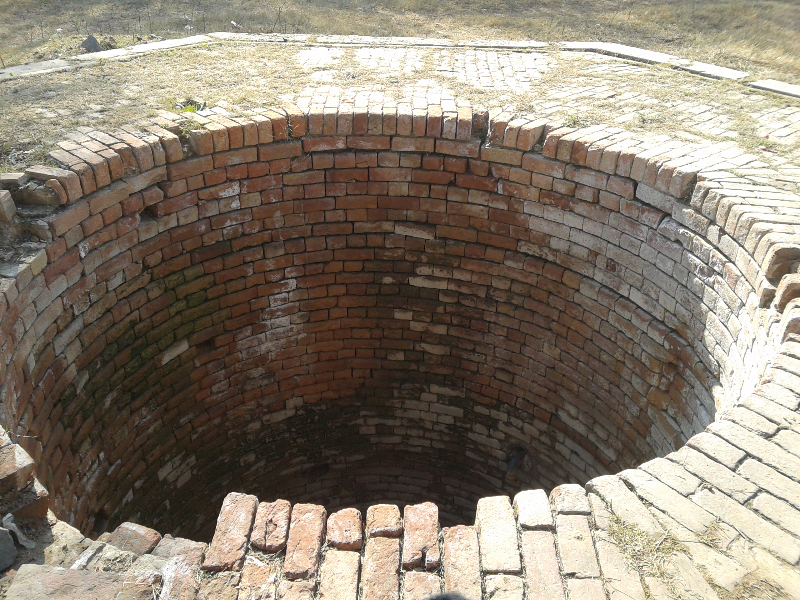 an old well